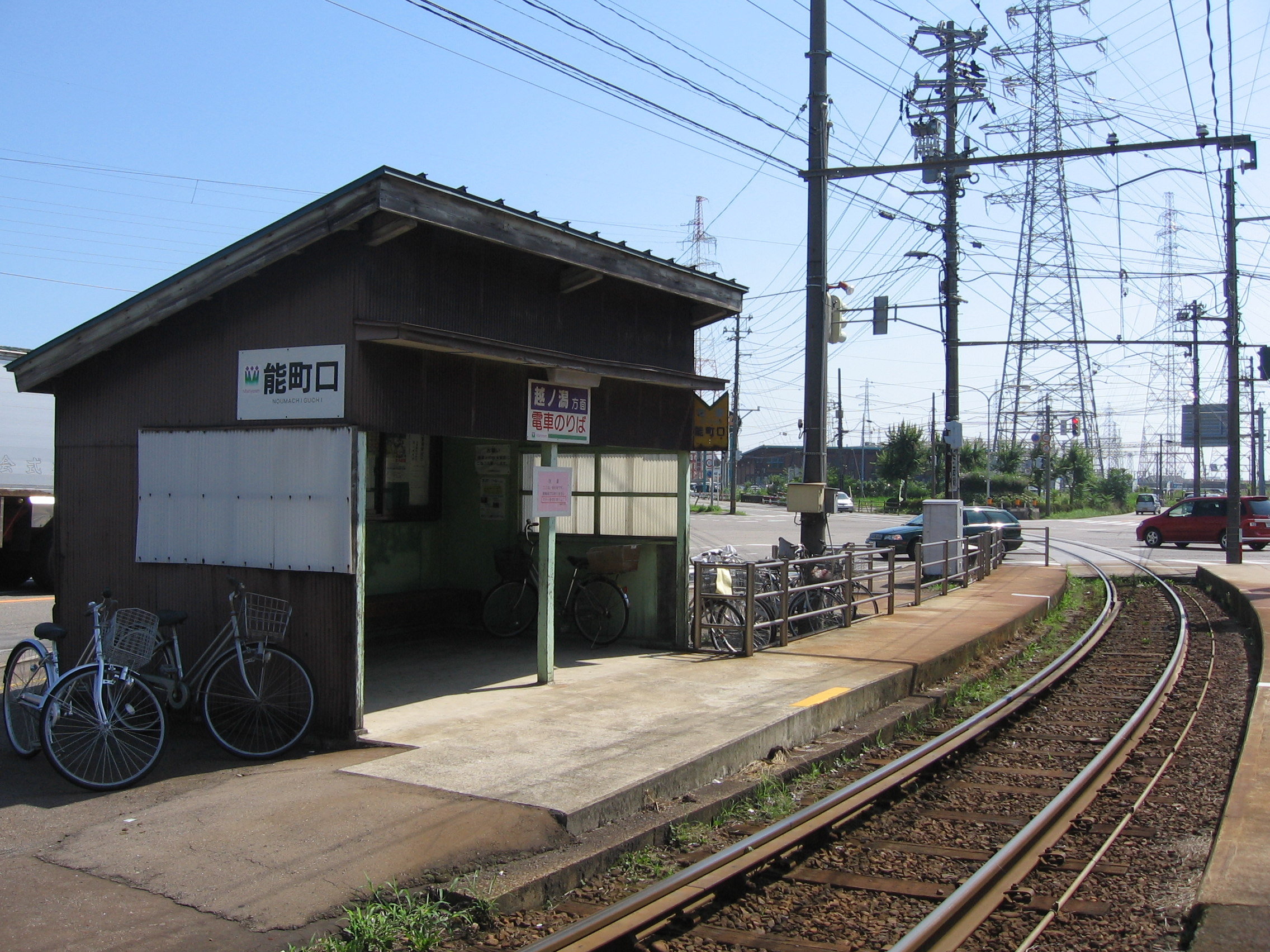 The platform of Nomachi Guchi Station of Takaoka Tram Line of Manyosen. In Nomachi, Takaoka, Toyama, Japan.